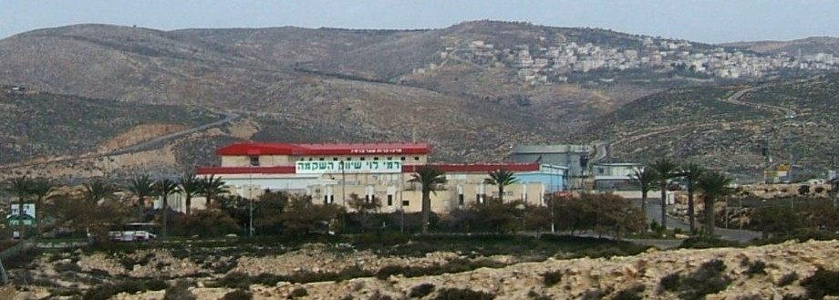 Sha'ar Binyamin Industrial Zone